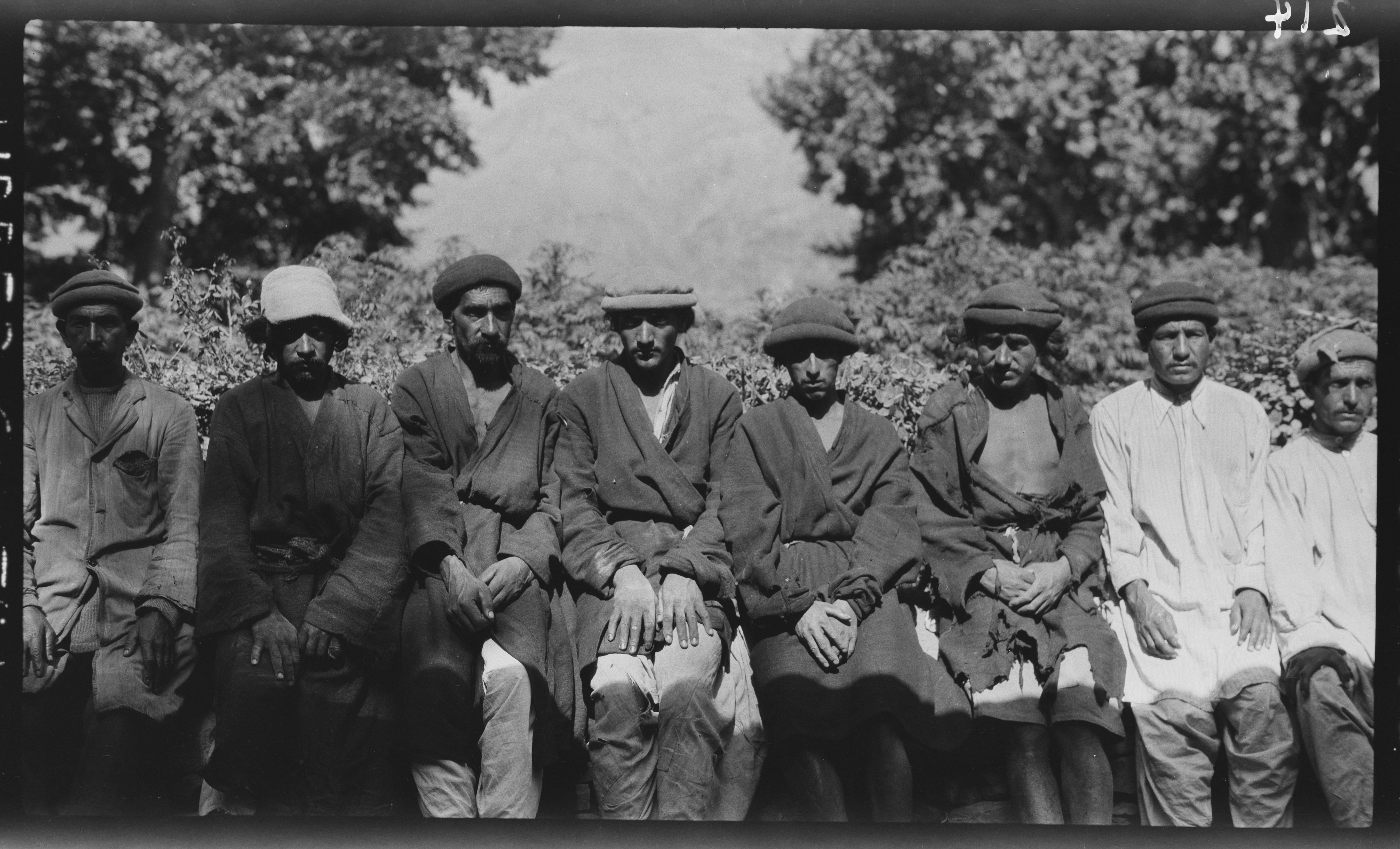 Garm Chashma (Chishma), Chitral, NWFP, Pakistan "Upper Chitralis." Names unknown. Eight young men from Upper Chitral. They are wearing traditional gowns and hats.